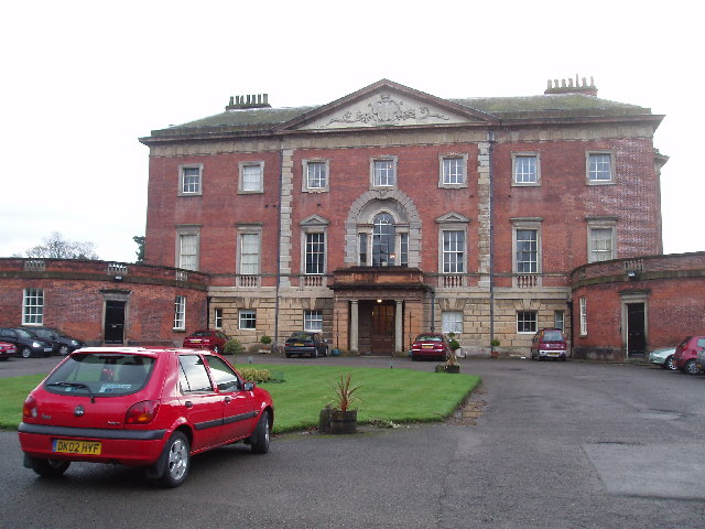 Tabley House, north front. Once a stately home, now a nursing home.